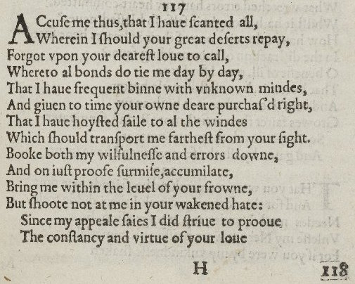 Sonnet 117 in the 1609 Quarto of Shakespeare's Sonnets